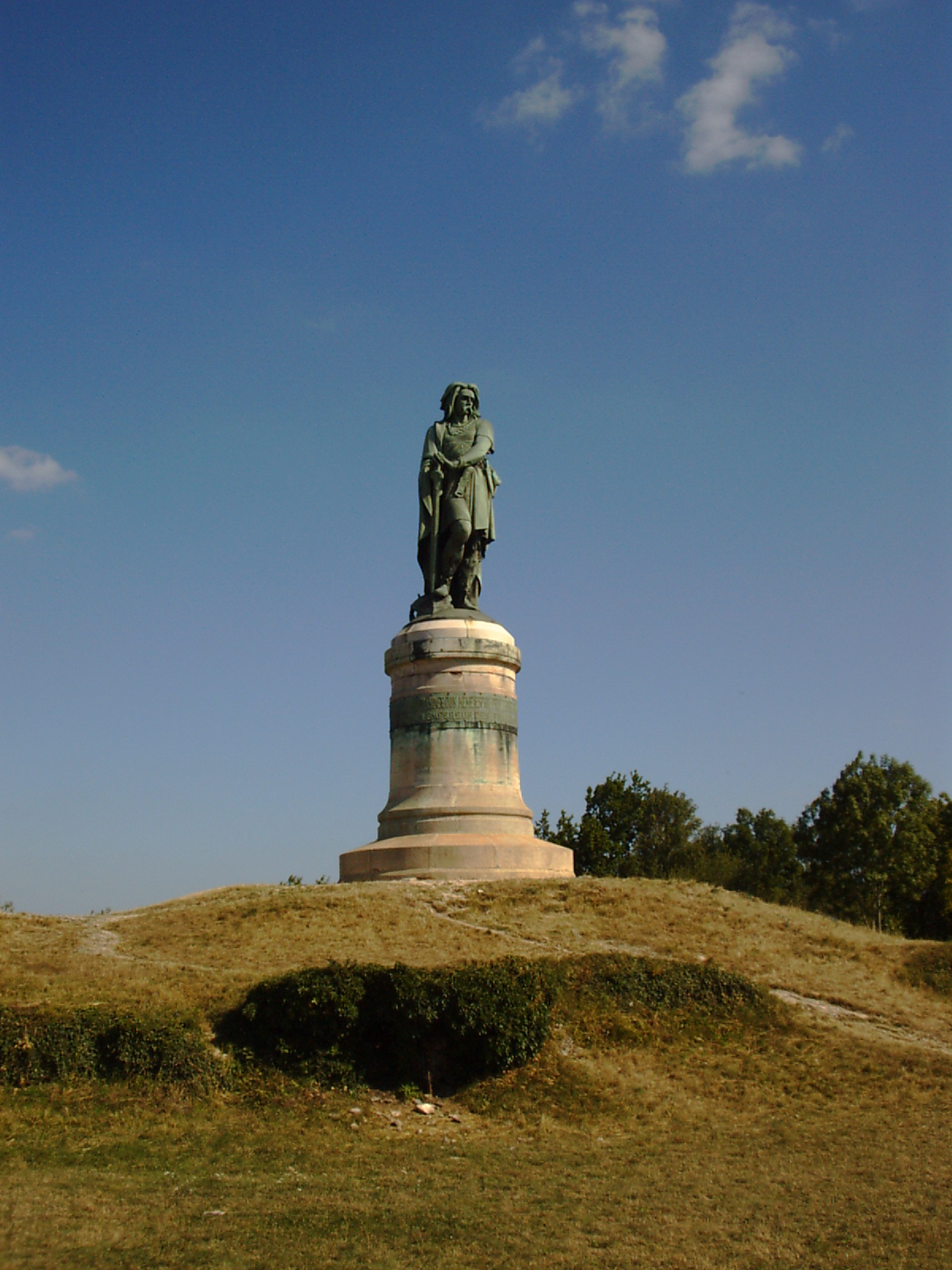 Vercingetorix Memorial at Alesia (Alise-Sainte-Reine), France